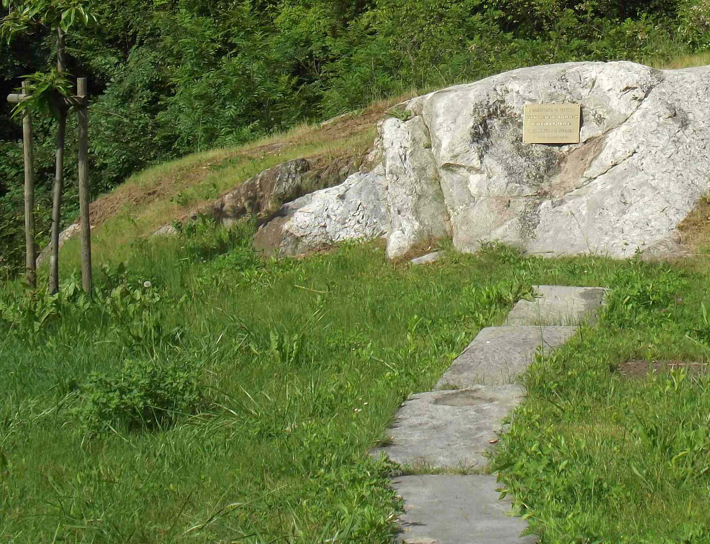 Biella (ponte della Maddalena islet): memorial plaque devoted to Margherita da Trento